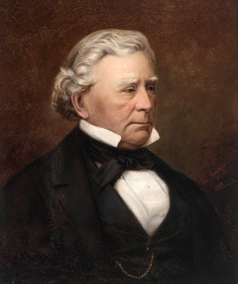 William Charles Wentworth